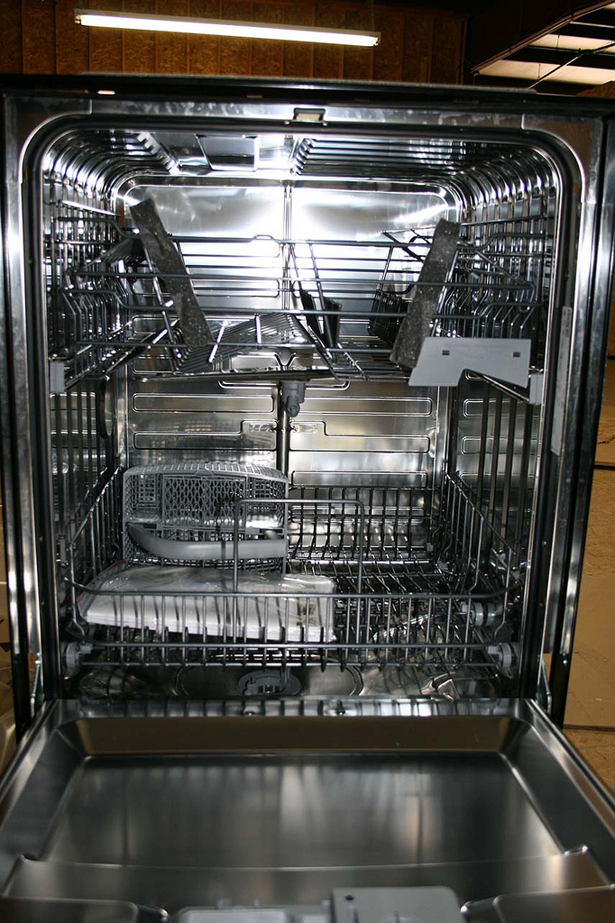 the rack have a fun design that has flip-down sections to allow for things like stemware, pots, etc. there are also a couple power spray nozzles.